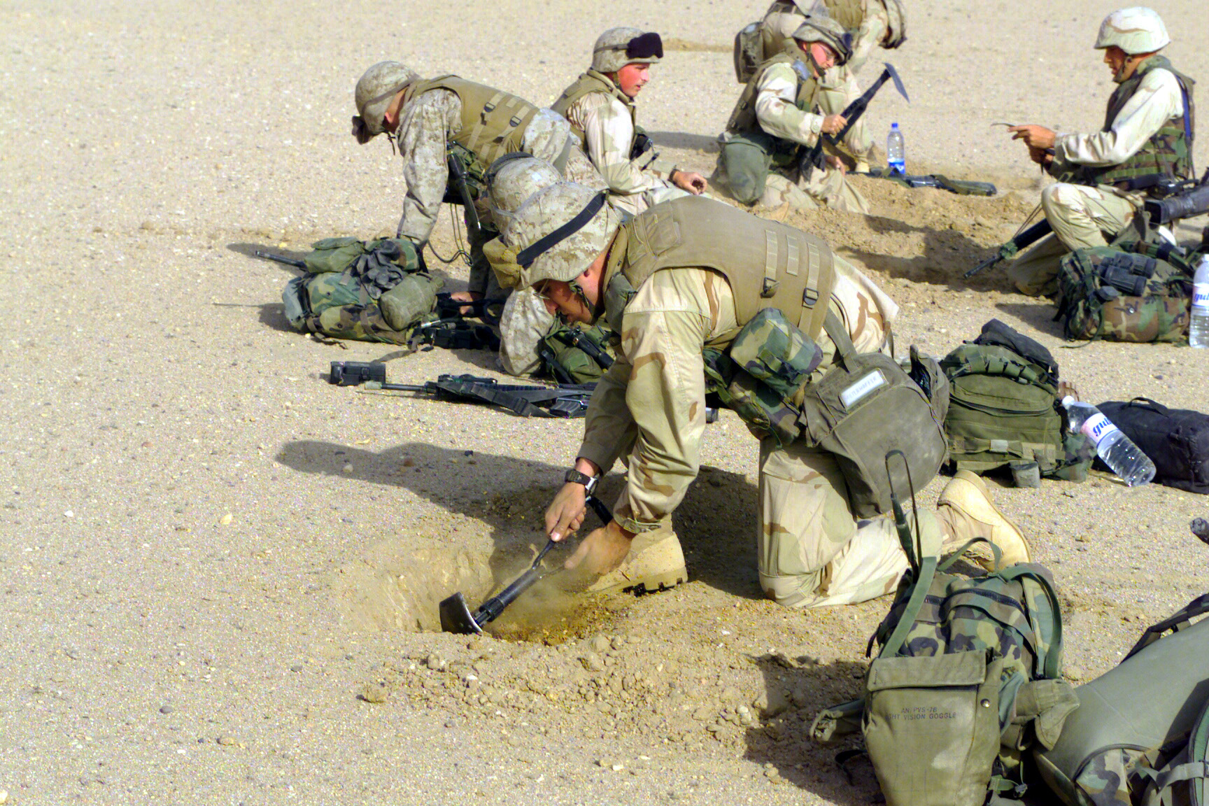 US Marine Corps (USMC) personnel from Lima Company 3rd Battalion 4th Marines (3/4) dig fighting holes in the dispersal area near the Iraqi border